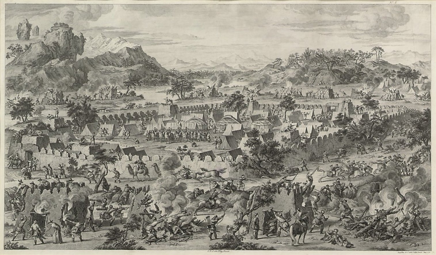 "The Battle of Tonguzluq" Possibly a famous episode which occurred in 1758 when Zhao Hui tried to take Yarkand for the first time. Drawn by Castiglione; engraved by St. Aubin, 1771 (9th of the 16 copperplates commisionned for Les Conquêtes de L'Empereur de la Chine).